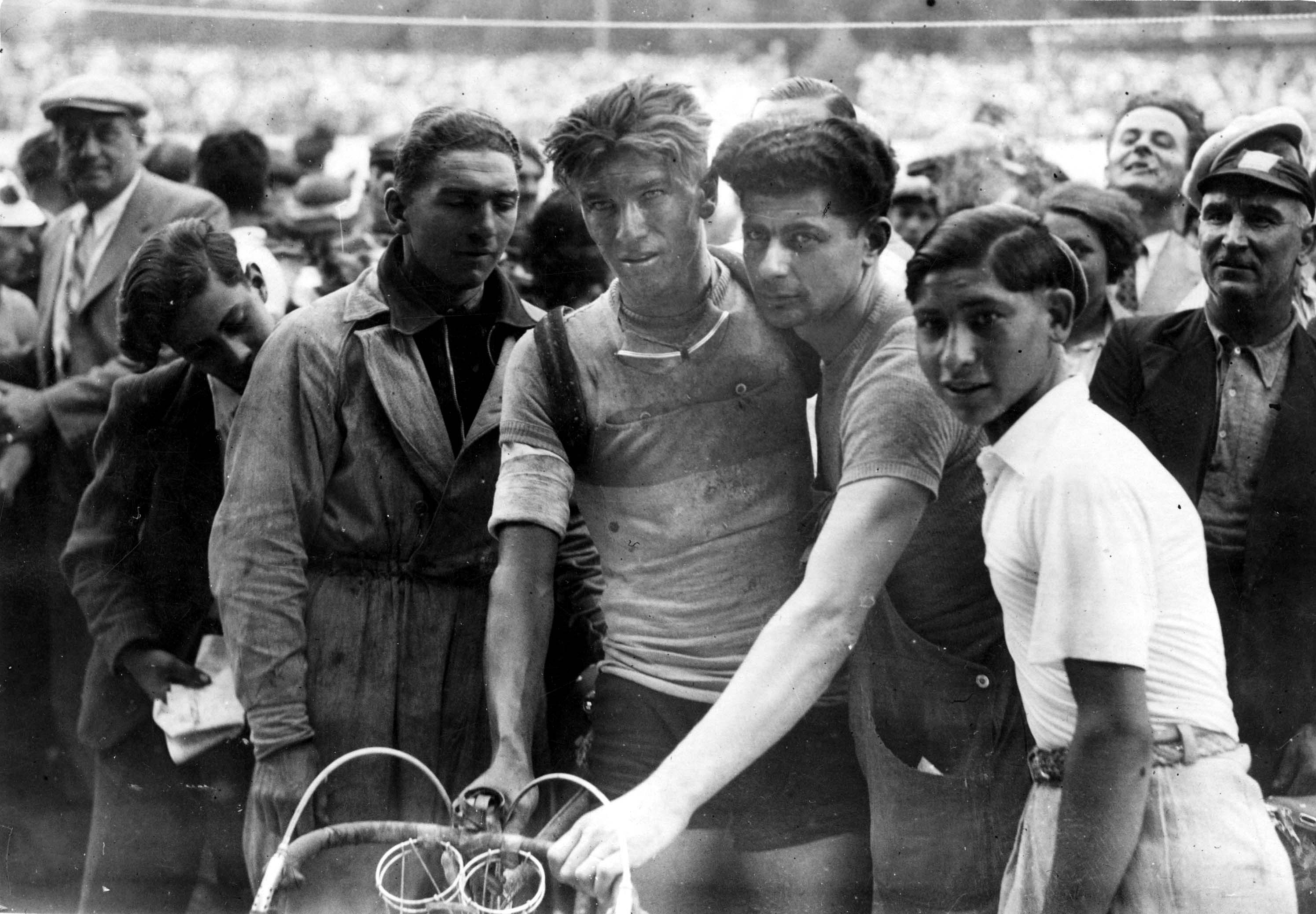 Theo Middelkamp as the first Dutchman to win a stage in the Tour de France. 14 July 1936, Aix-les-Bains to Grenoble.